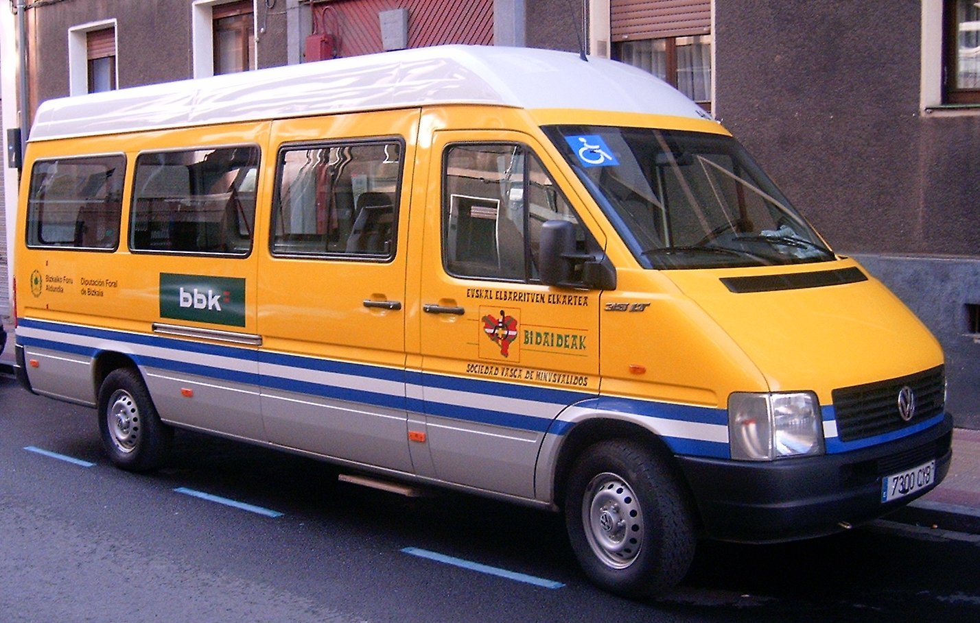 Minibus adapted to people with disability, parked in Barakaldo.